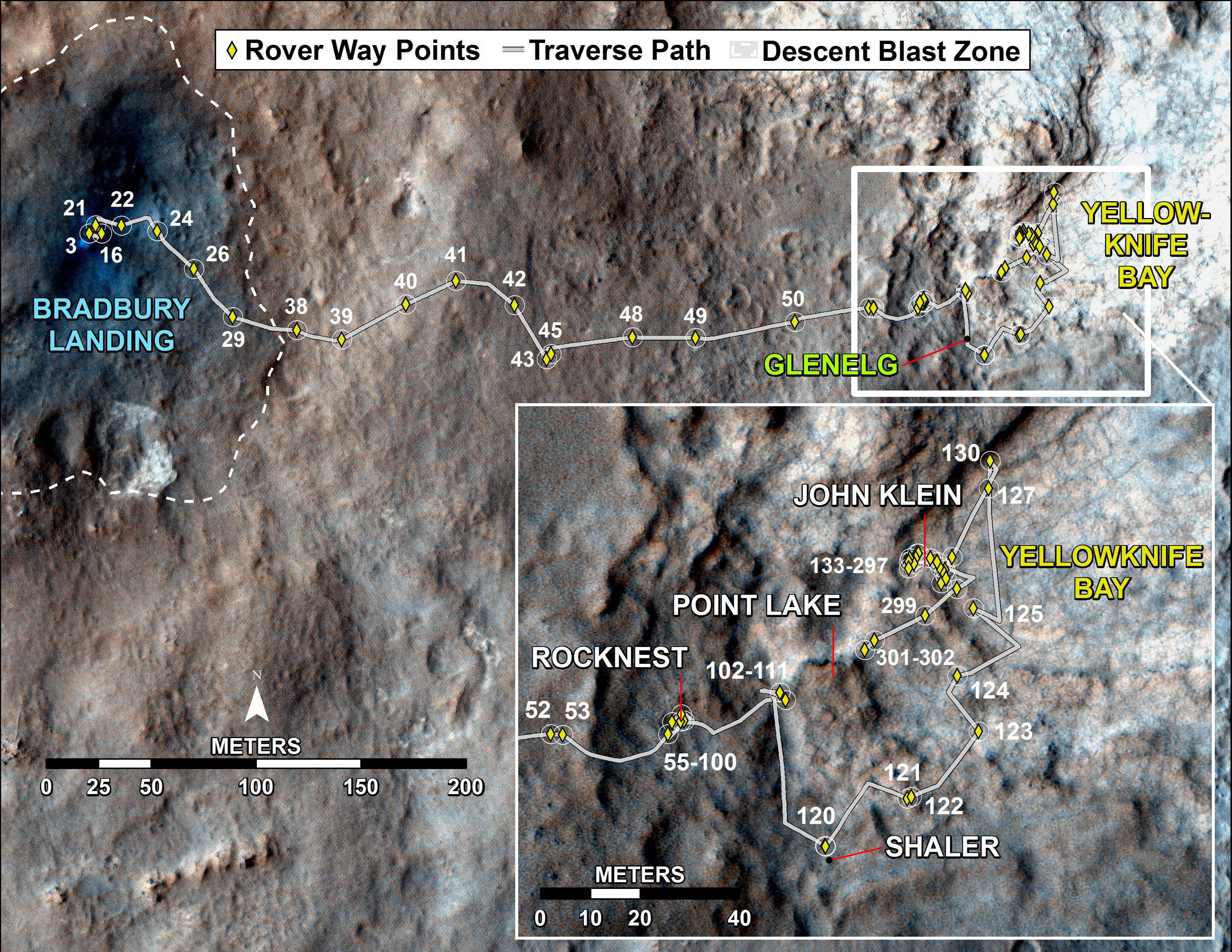 06.14.2013 Curiosity's Traverse Map Through Sol 302 Image Credit: NASA/JPL-Caltech